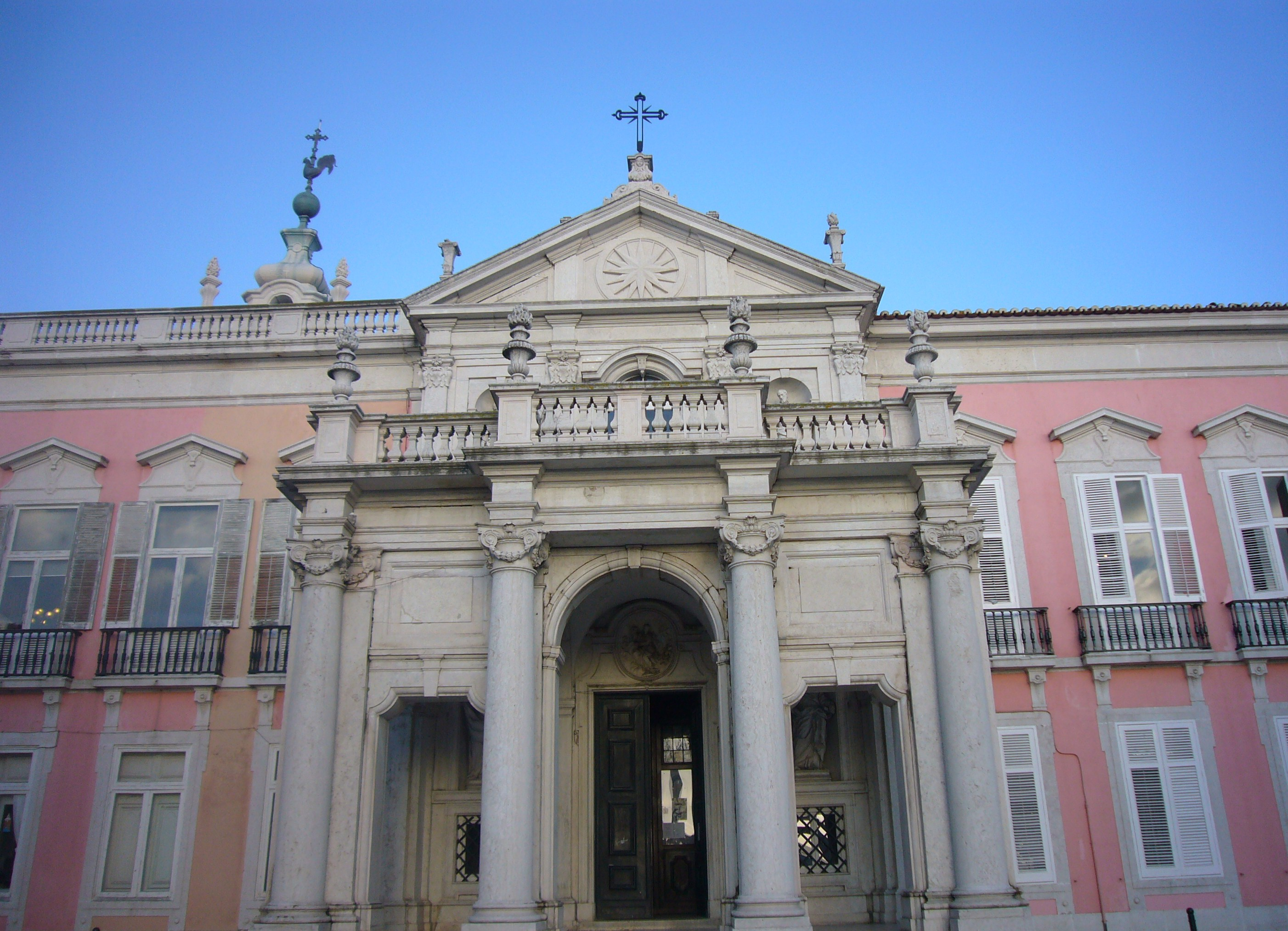 This former royal residence was also once a convent The palace was built in a style typical of the reign of D.João V with baroque and classical elements.